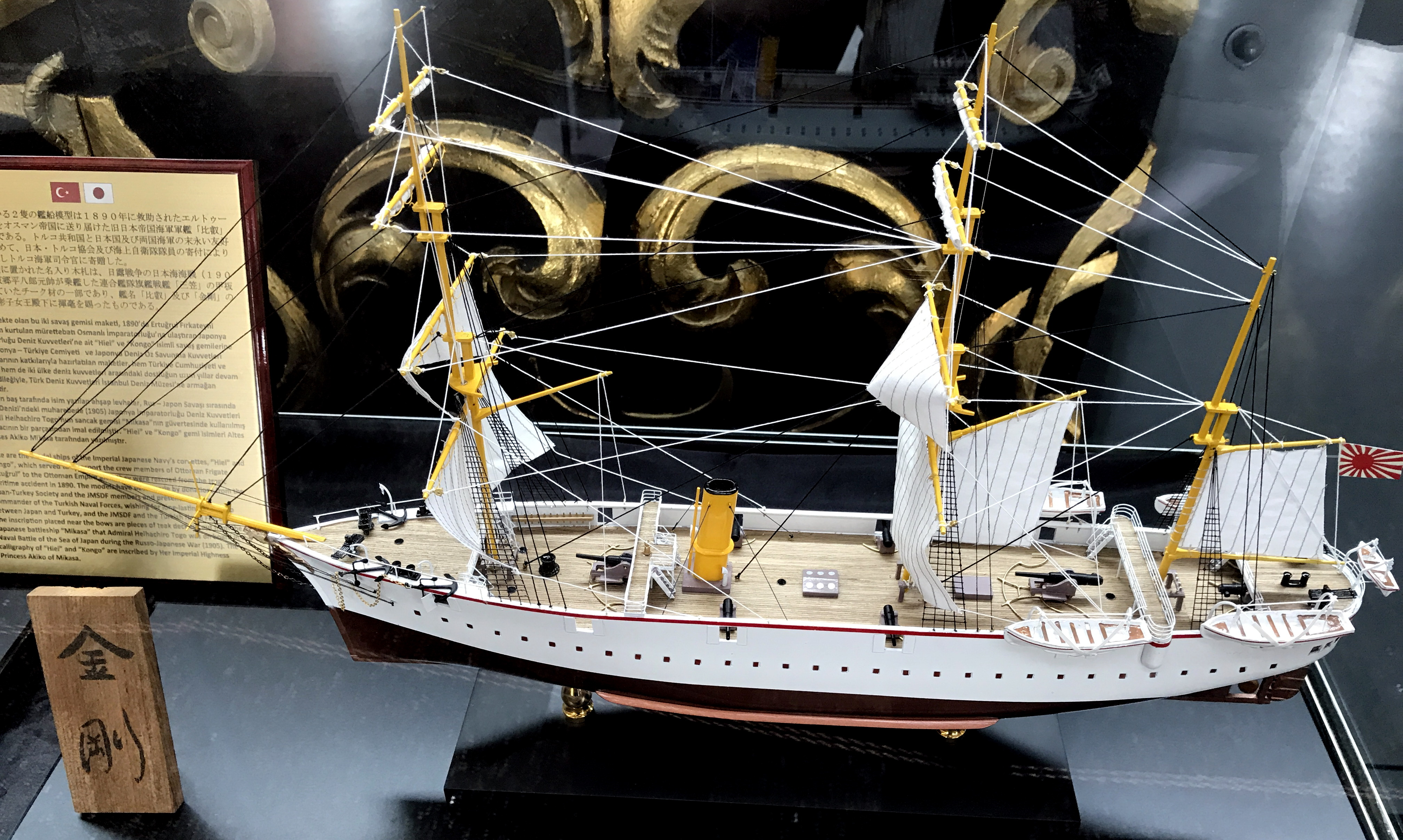 Model of Japanese ironclad "Kongō" corvette, in "Istanbul Naval Museum".